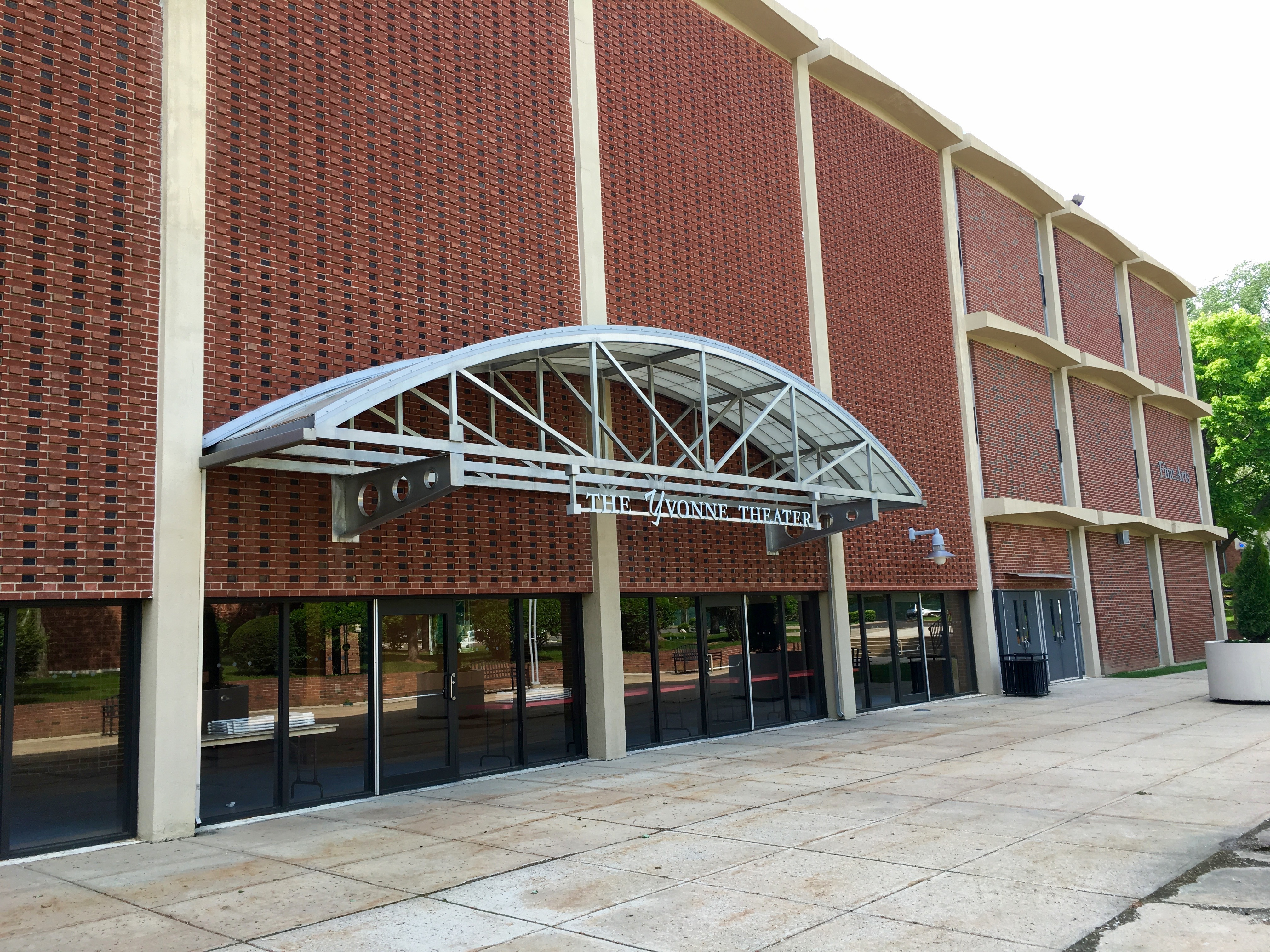 Fine Arts Center and Yvonne Theater